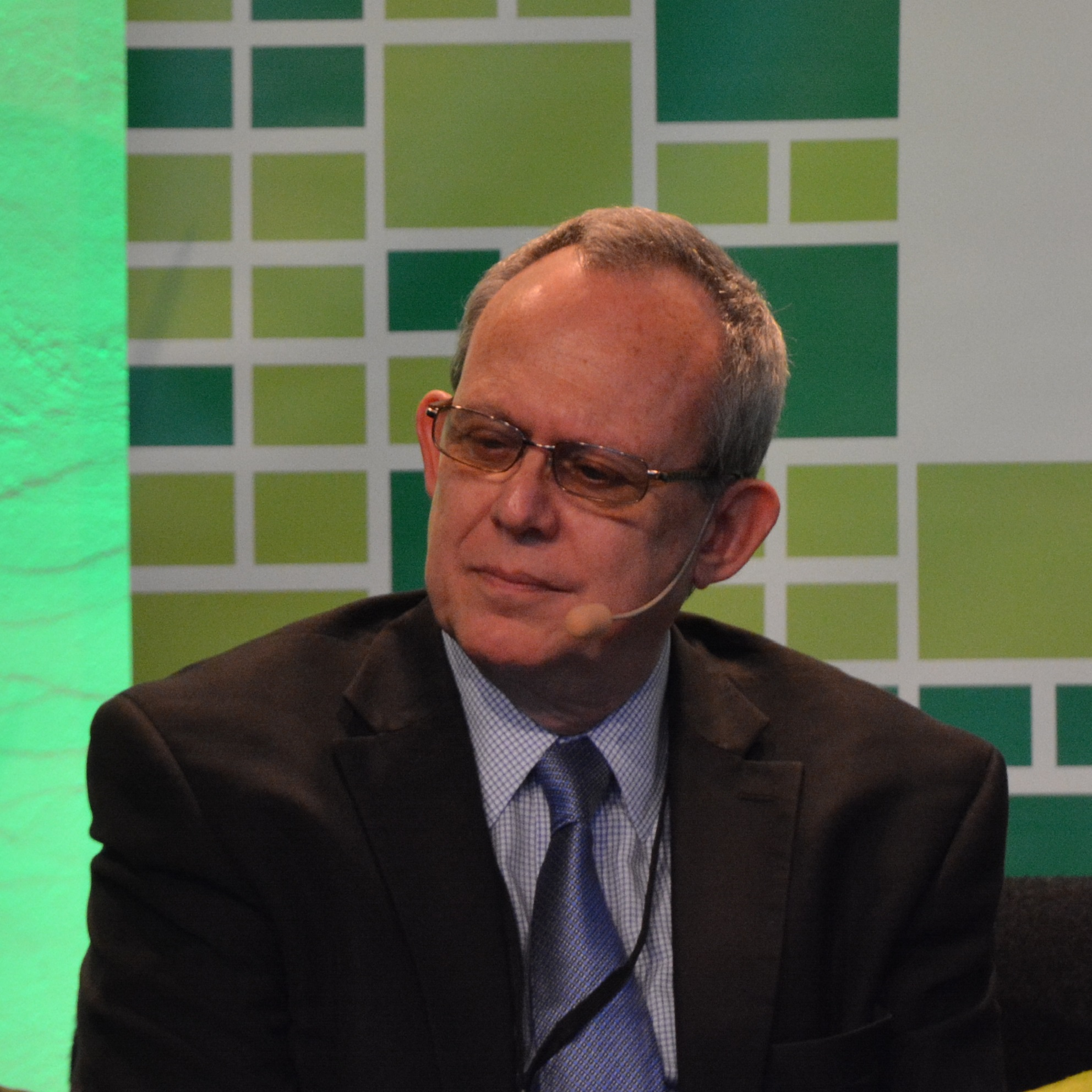 Frank La Rue, Stockholm Internet Forum 2015